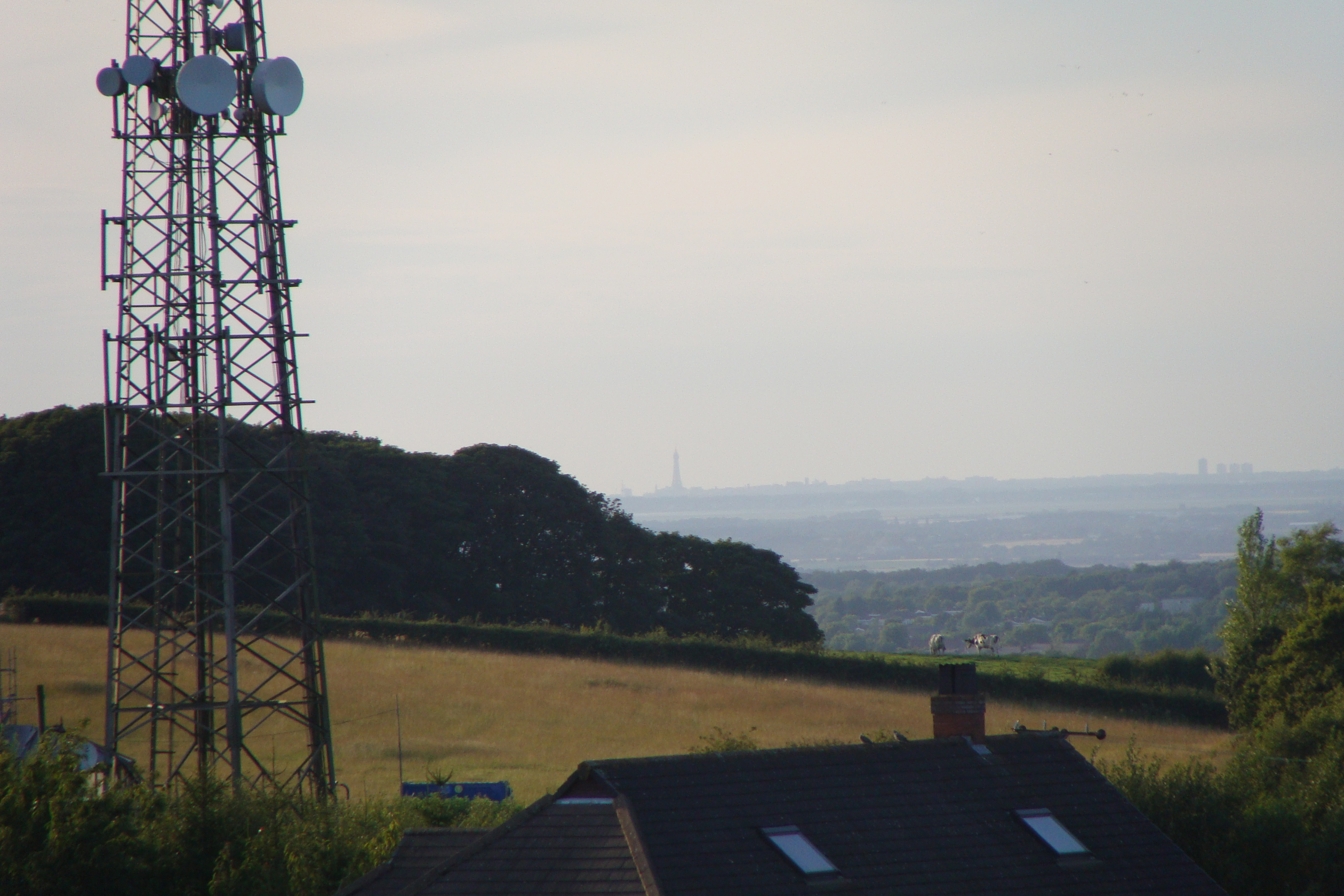 This picture was taken on a clear(ish) day on 10x optical zoom. Blackpool tower can be clearly seen and even more so if zoomed in on.